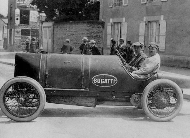 Ettore Bugatti & Type 18